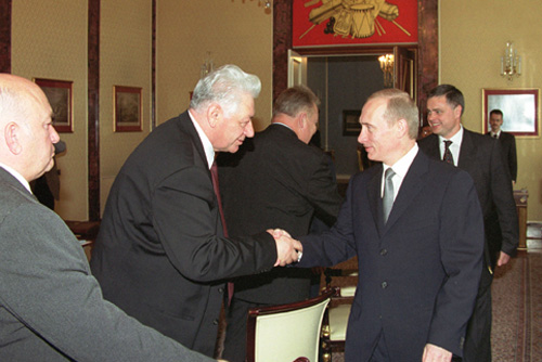 THE KREMLIN, MOSCOW. With President of the State Council of Dagestan Magomedali Magomedov before the start of the State Council Presidium's meeting.